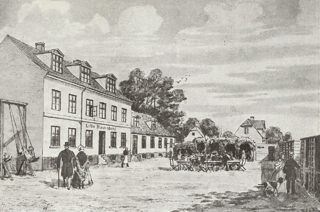 The restaurant Lille Ravnsborg on Kapelvej in Nørrebro, Copenhagen, Denmark